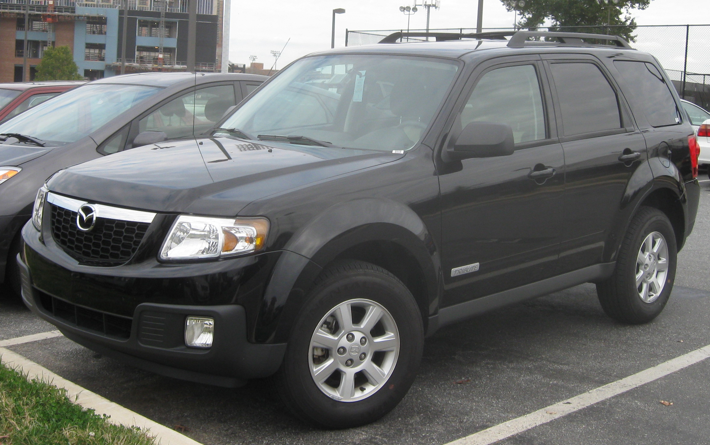 2008 Mazda Tribute photographed in College Park, Maryland, USA.